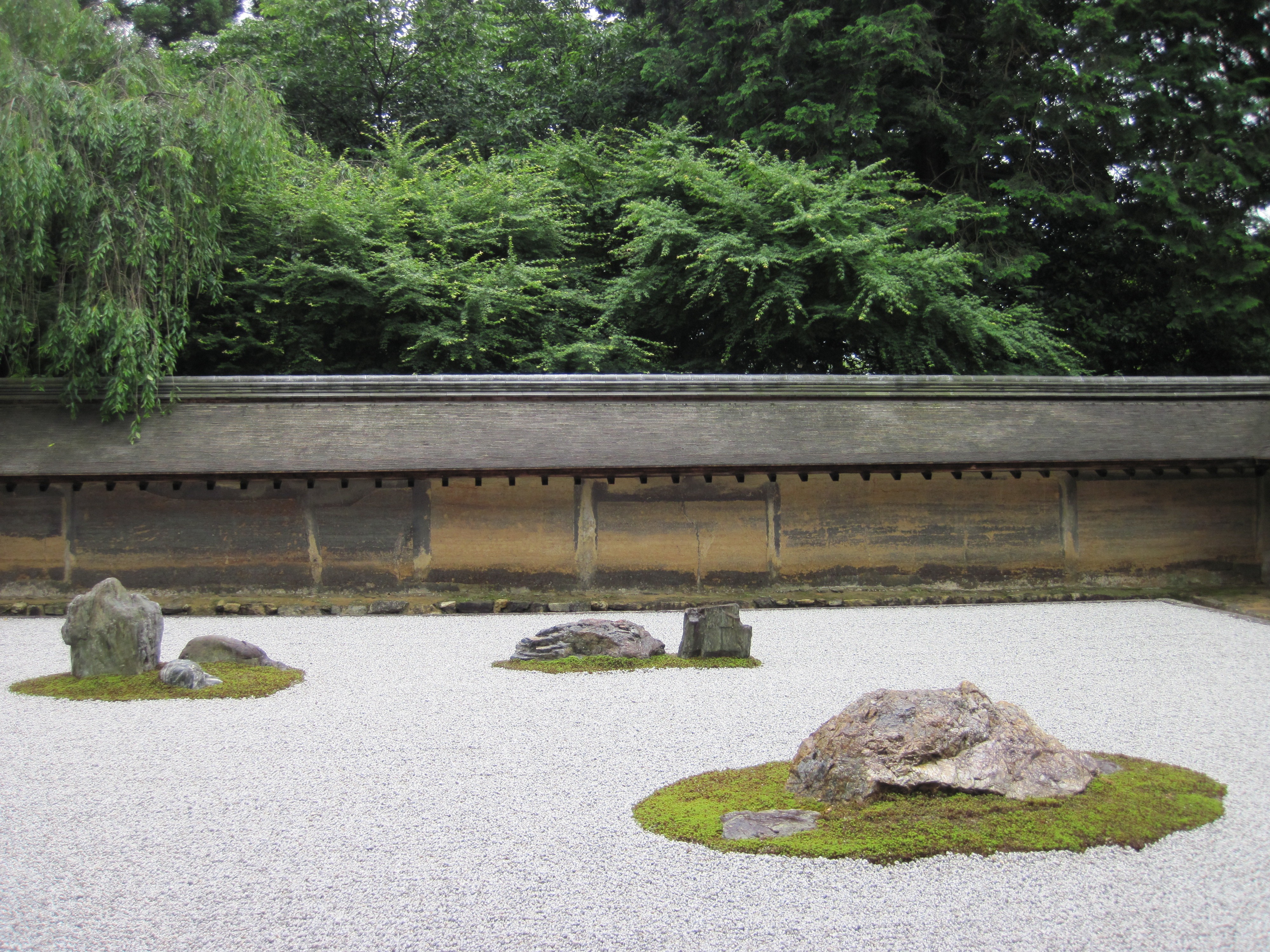 Ryoan-ji National Treasure World heritage Kyoto 国宝・世界遺産 龍安寺 京都